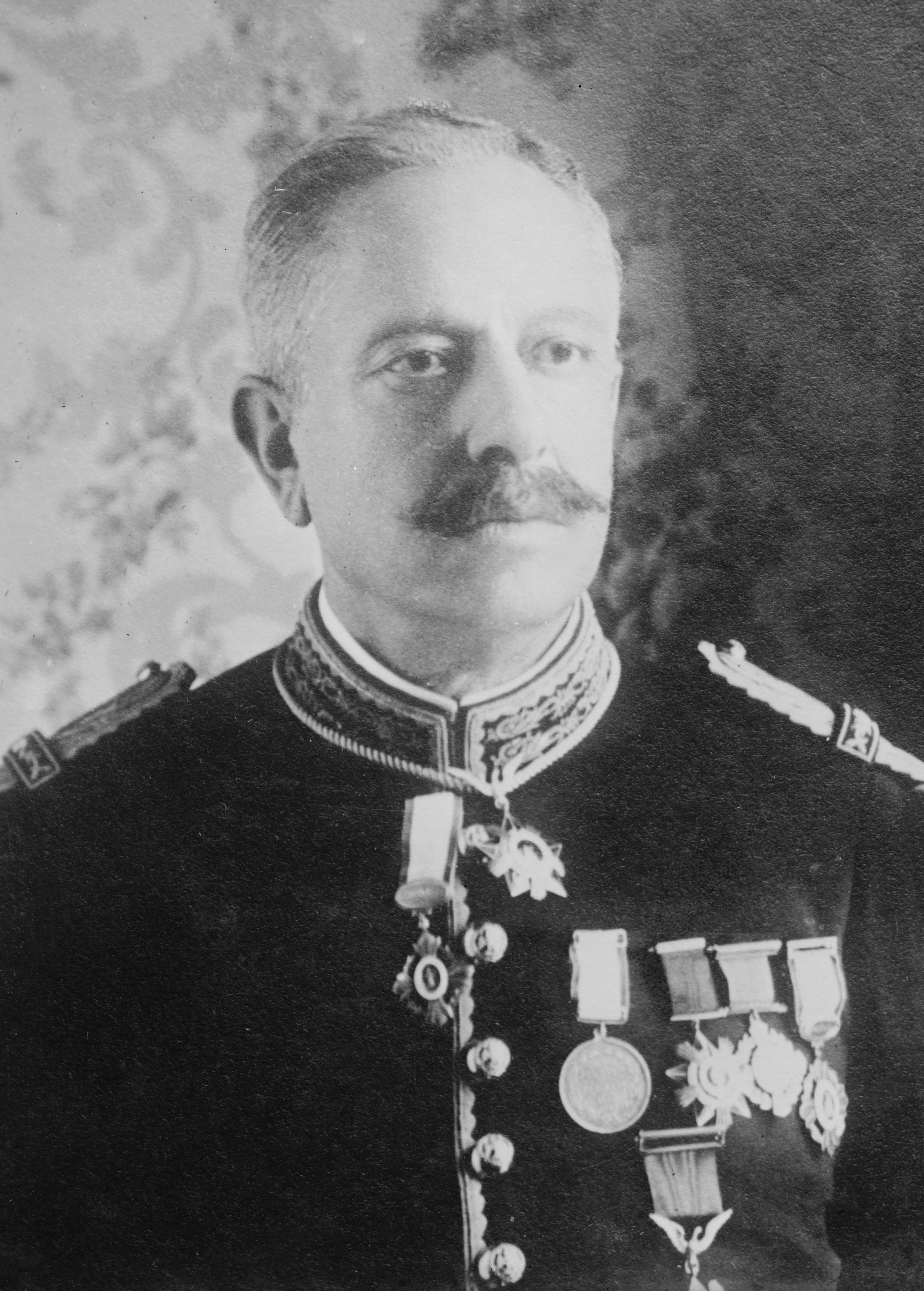 Title: Gen. A. Blanquet Abstract/medium: 1 negative : glass ; 5 x 7 in. or smaller.